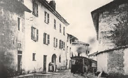 Candelo, tramway